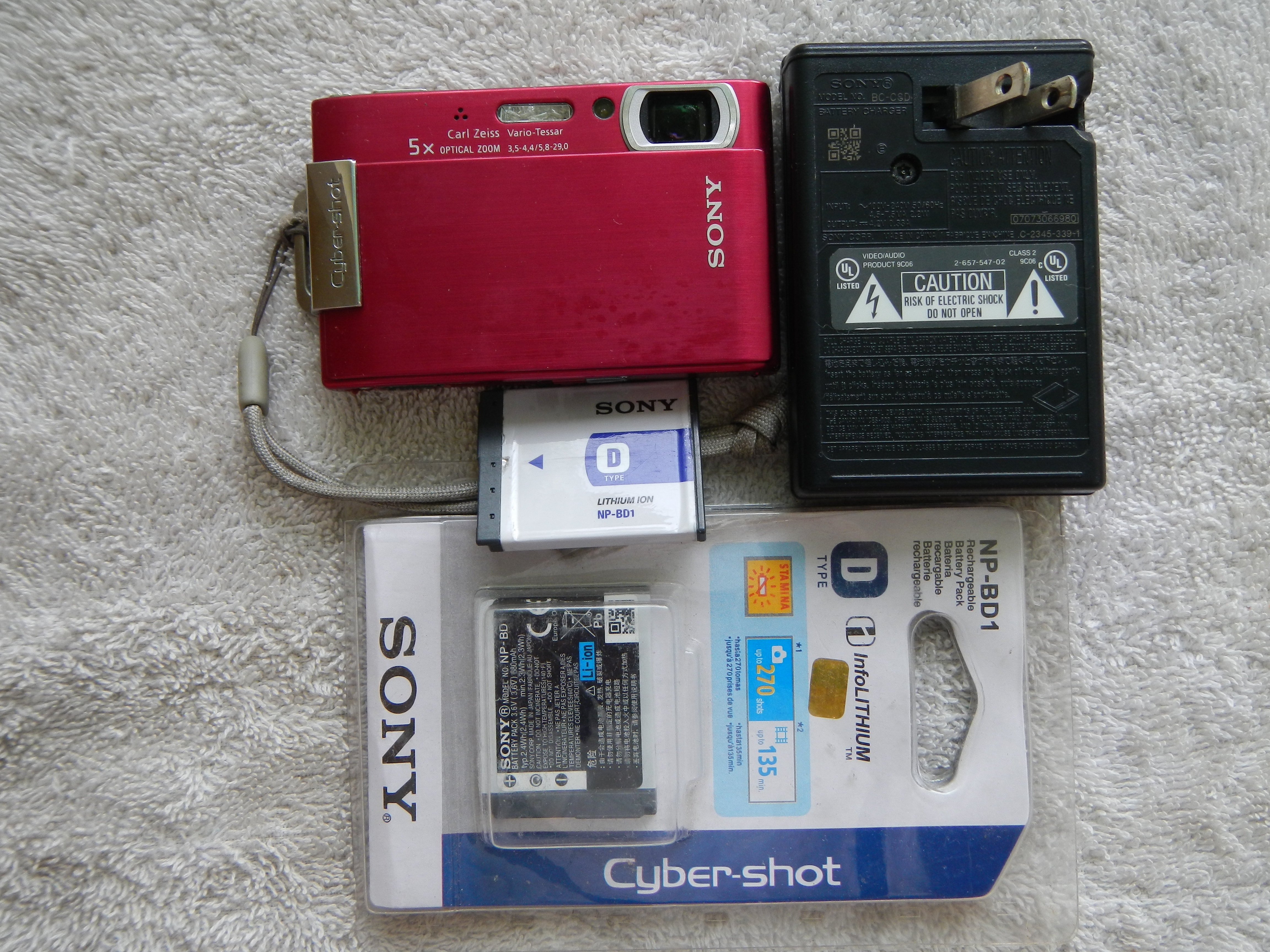 2008 Sony Cyber-shot DSC-T200 8.1 MP Digital Camera borrowed by Judge Floro from his sister-in-law and brother [Compact Sensor - 5 x optical zoom - CCD - Built-in Flash - ISO 3200 - Carl Zeiss 3X Optical zoom and the Sony Double Anti-Blur Solution] Camera [1] DSC-T200 (September 2007, 3.5" touch panel LCD, 8.1 megapixel, 5x optical zoom)[2]